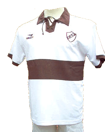 CAMISETA TRADICIONAL DEL CLUB ATLETICO PLATENSE UTILIZADA EN 1912 Y RECREADA POR LA FIRMA PENALTY EN OCASION DEL CENTENARIO DE LA INSTITUCION (1905-2005).